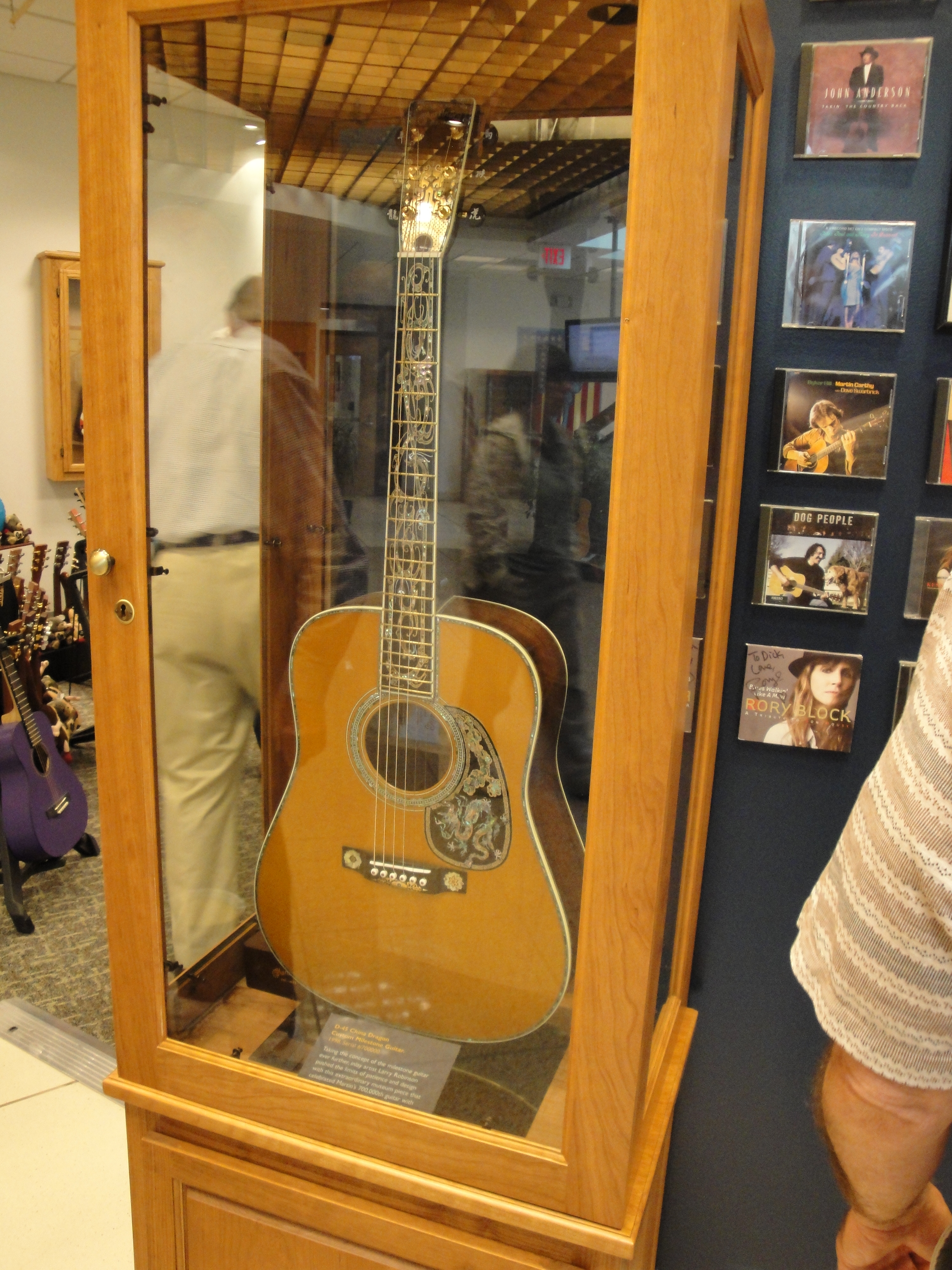 C.F.Martin Guitar Factory Tour (DSC00689) D-45 China Dragon Custom Milestone Guitar 1998, Serial #700000 .